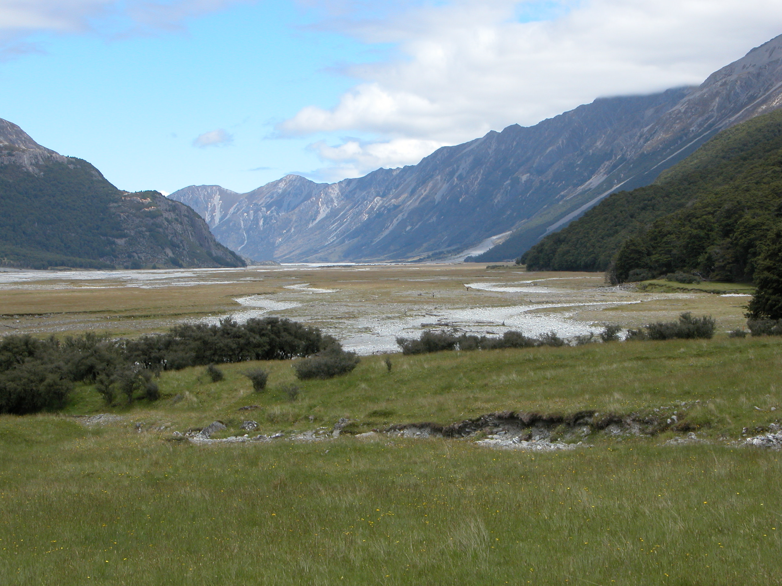 Hopkins River, New Zealand: looking downstream from near the Elcho hut.